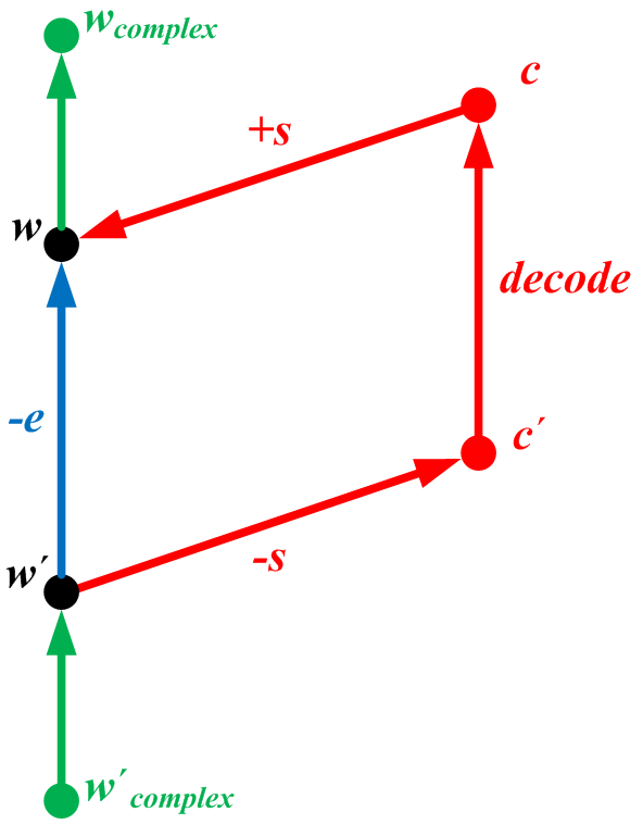 Vectors showing the construction of Secure Sketches